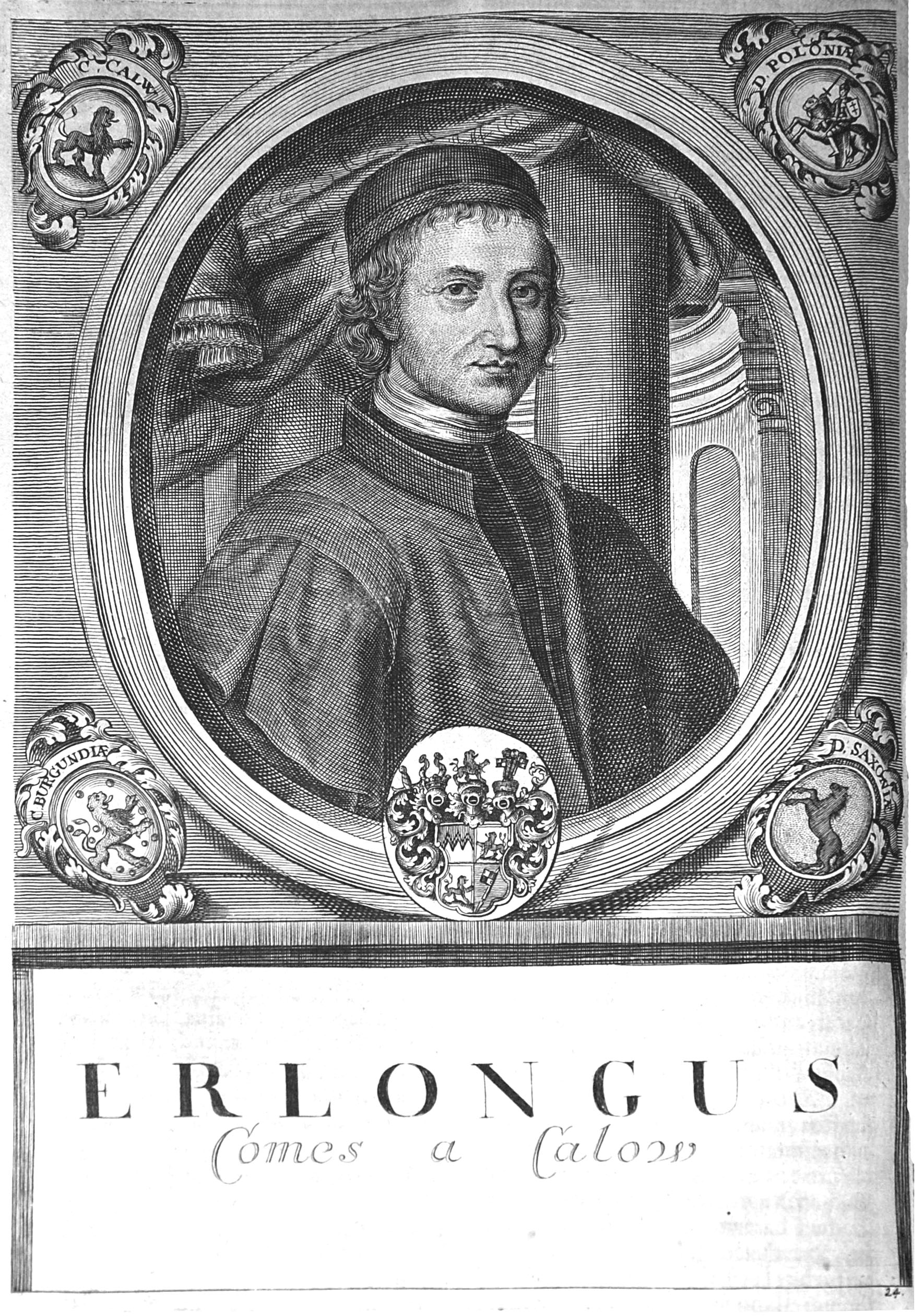 Erlung 1105 -1121 Bishop of Würzburg